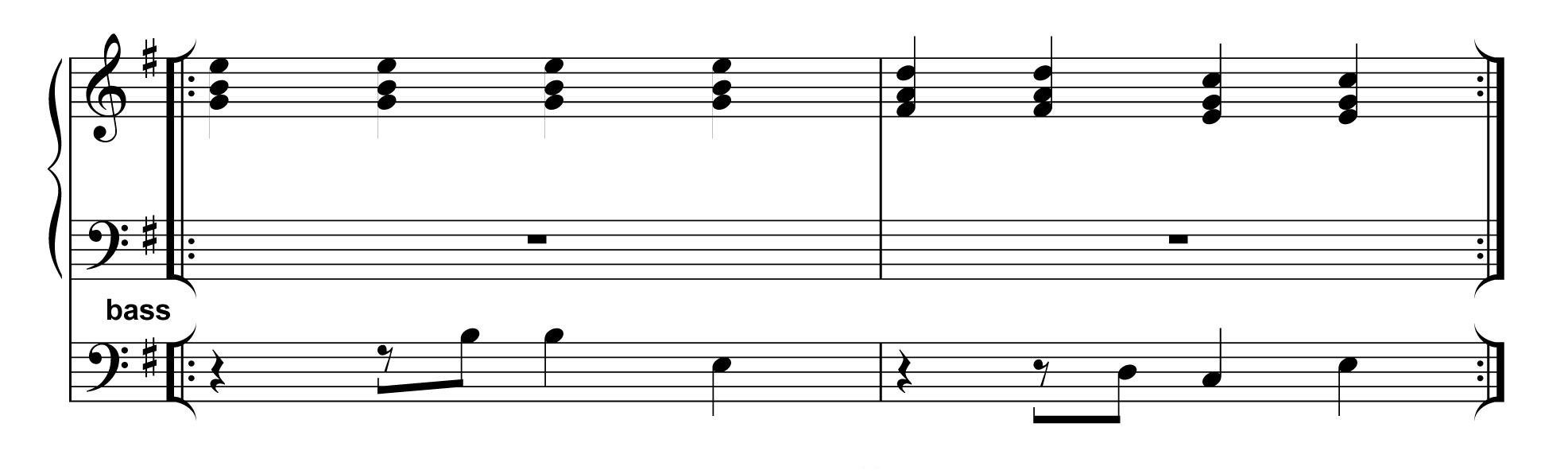 the rock and roll side of songo